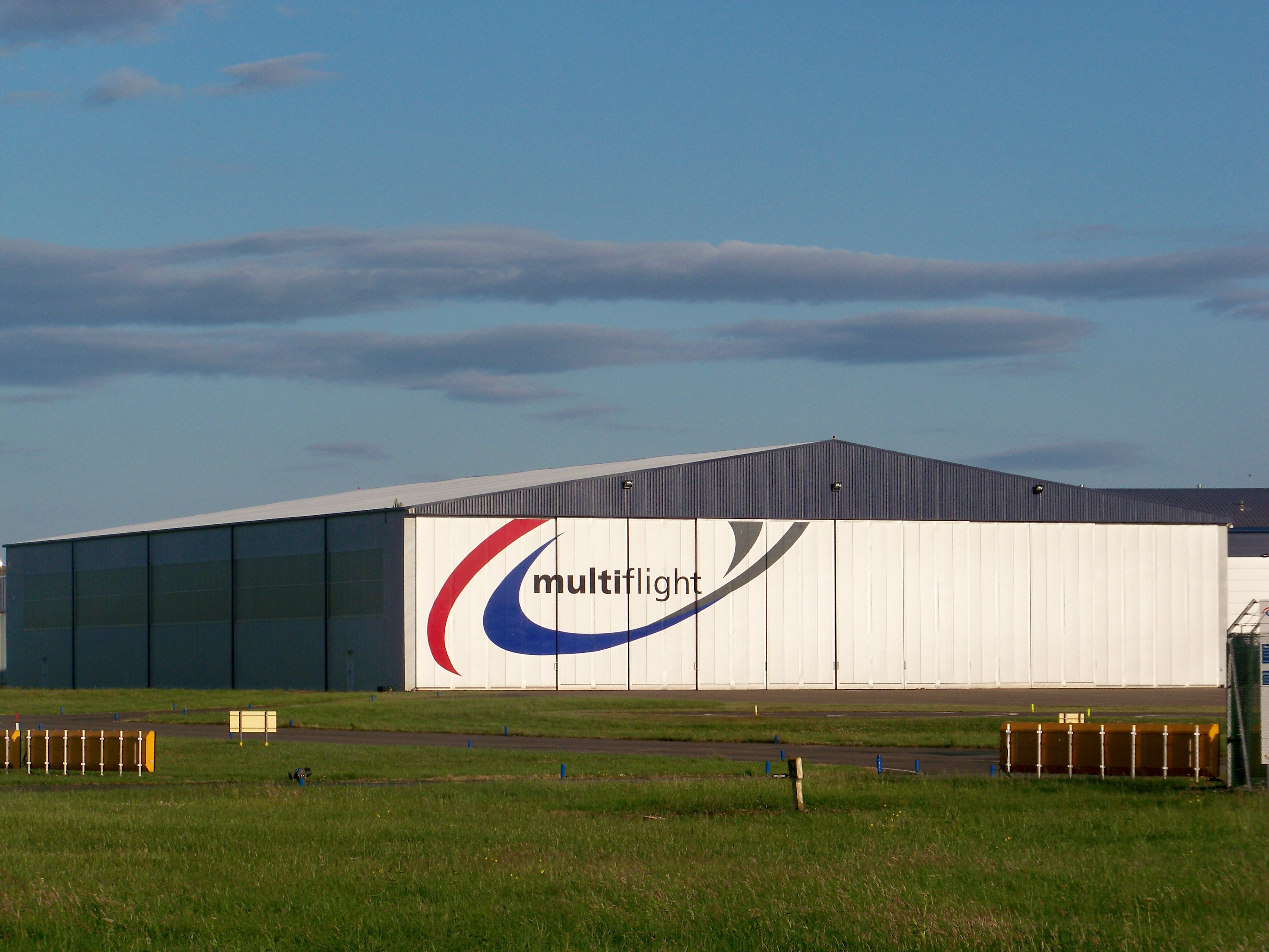 A hangar owned by Multiflight, flight training school, situated at Leeds Bradford International Airport, Leeds, West Yorkshire, UK. July 2009.